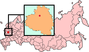 Location of Tula on the map of Russia